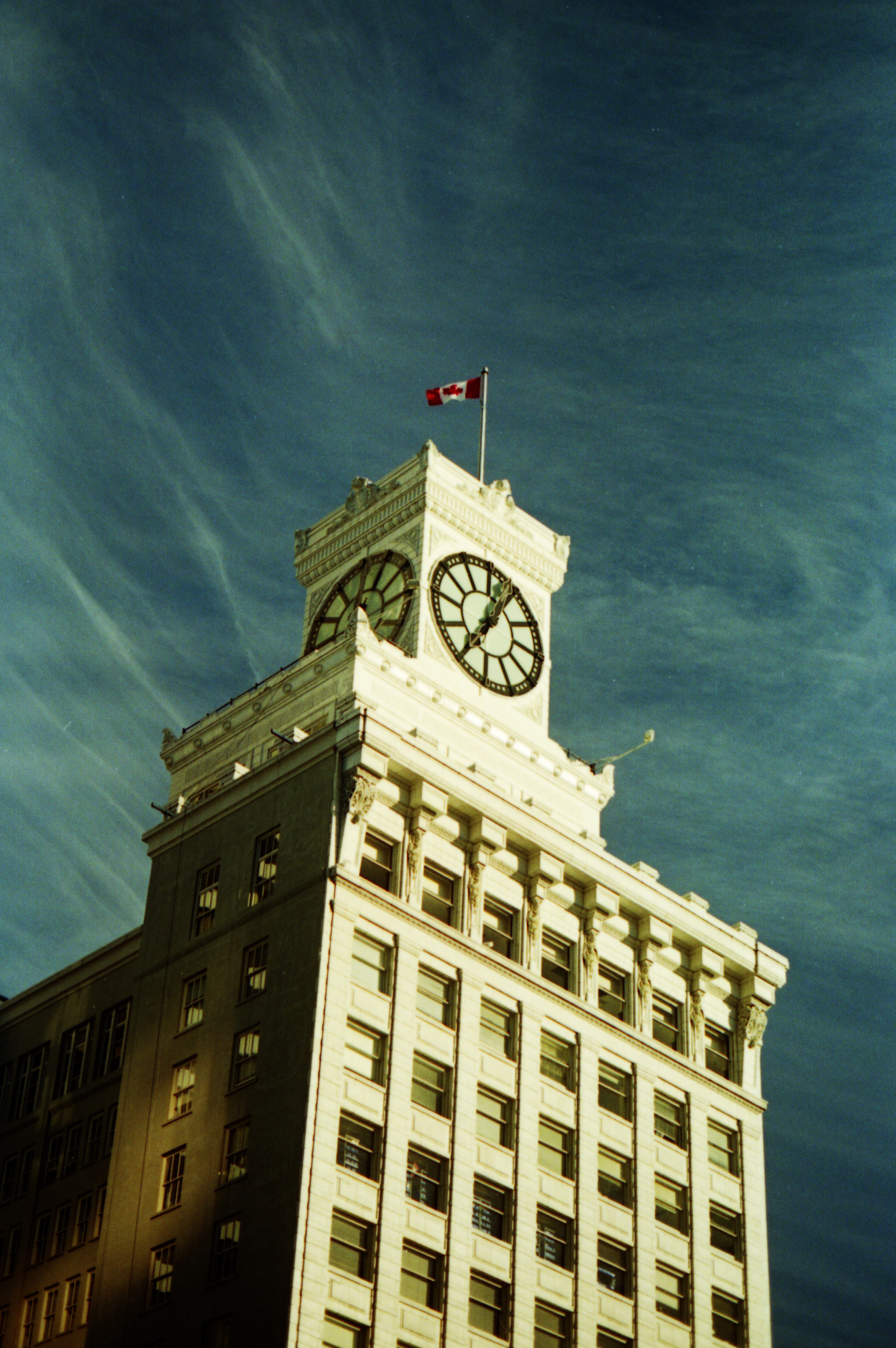 Vancouver Block, office building